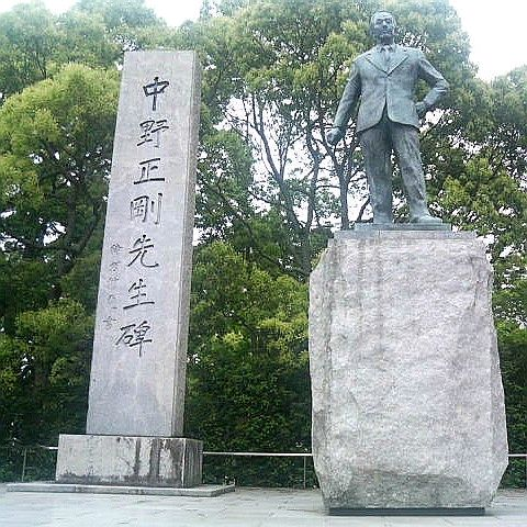 Statue of Seigo Nakano located in Imagawa, Chuo-ku, Fukuoka City, Fukuoka, Japan.